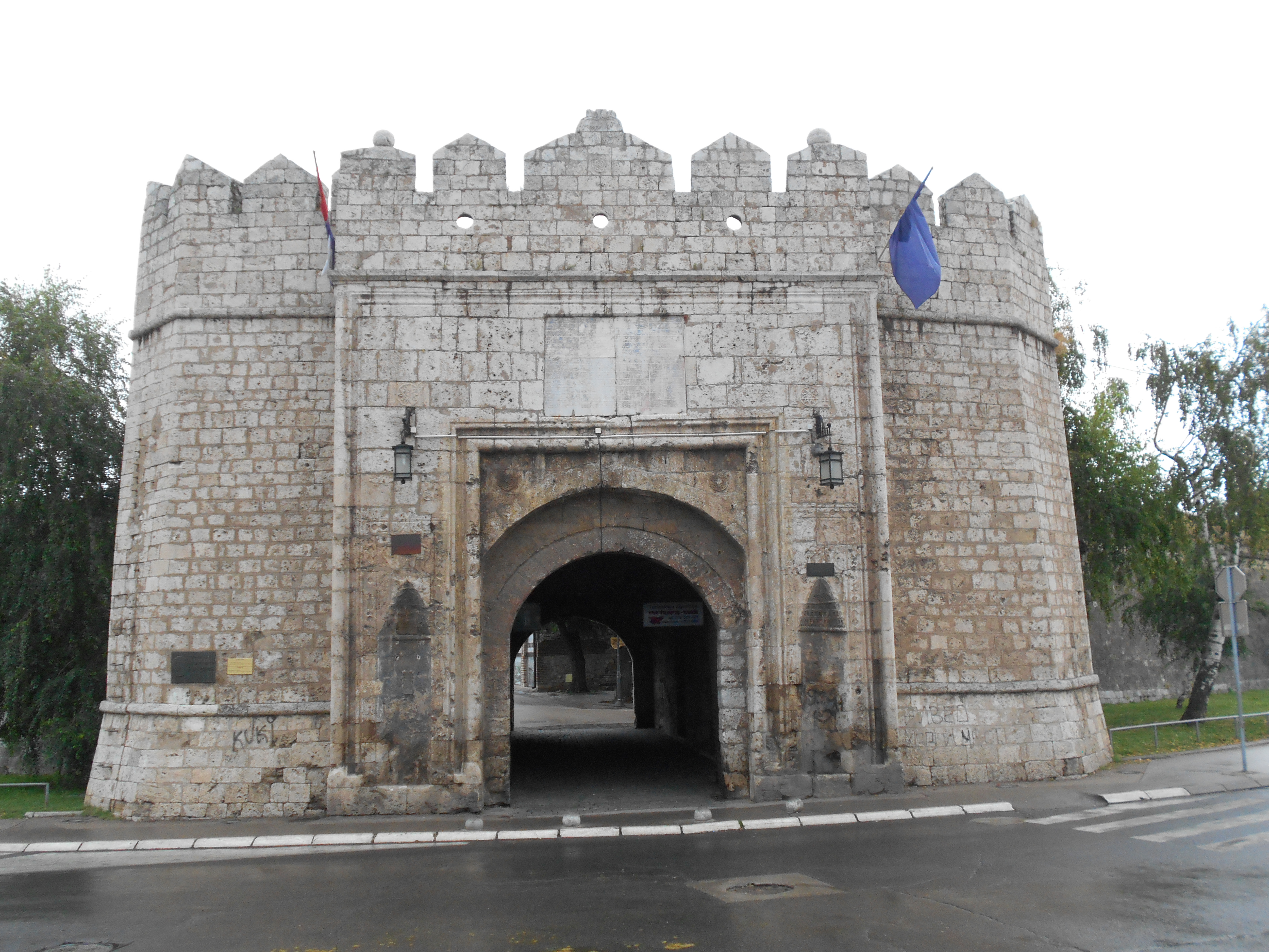 Niš Fortress